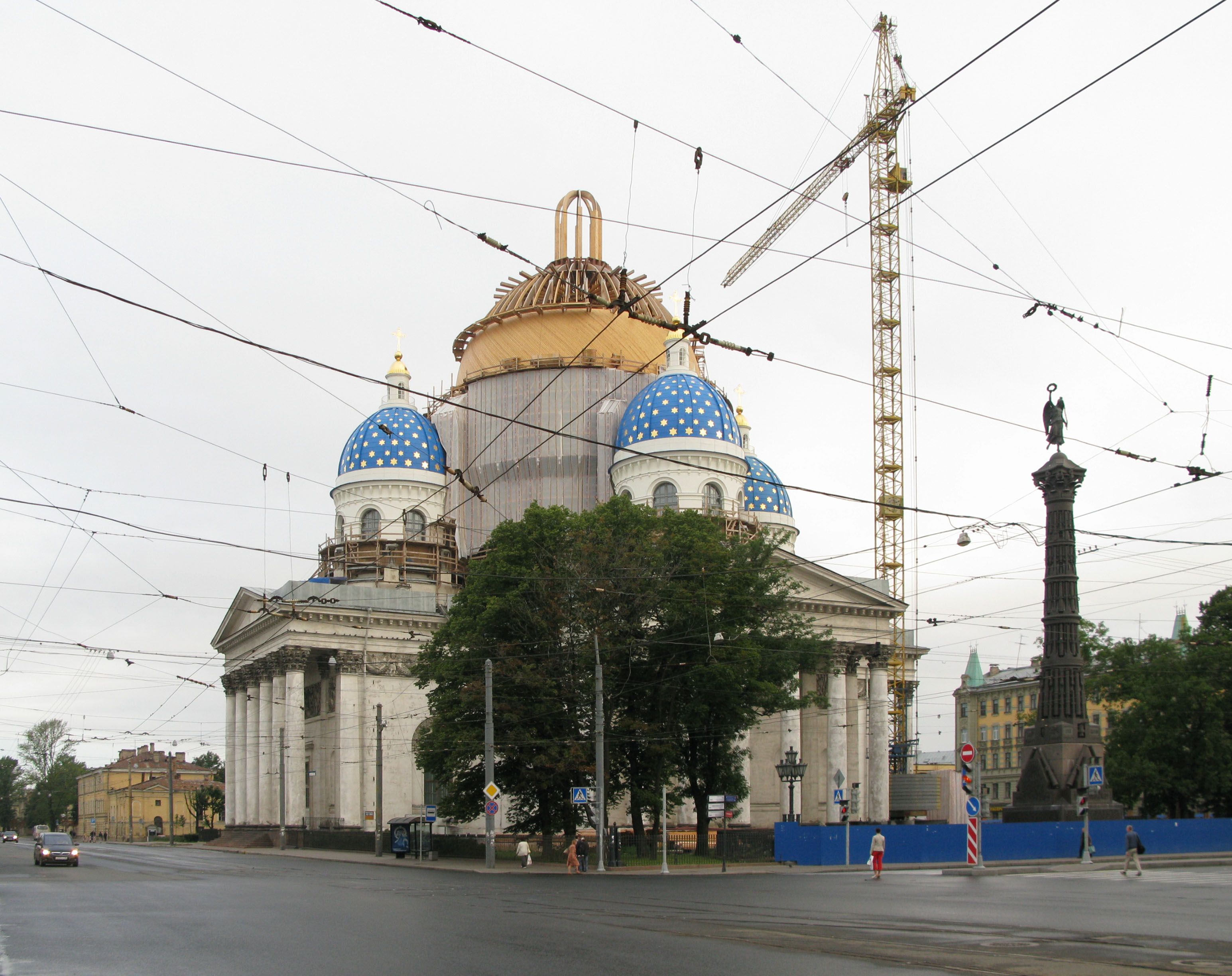 The Trinity Cathedral in Saint Petersburg during restoration. August 2008.